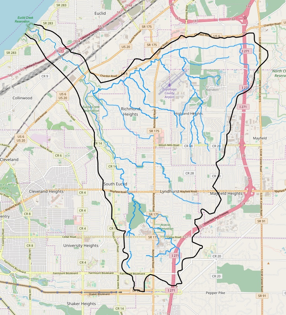 Euclid Creek in the state of Ohio in the United States. The watershed is defined by the heavy black line. The bright blue line indicates the East Branch, West Branch, and feeder streams of Euclid Creek. Not all viaducts, tunnels, and other channels are indicated. Only major enclosures are depicted; these are shown with a dotted blue line. The two sections of the Euclid Creek Reservation, a part of the Cleveland Metroparks, are indicated on the map by a greenish border. Positions of the creek and its tunnels and viaducts are approximate. This map of Cuyahoga County, Ohio, U.S. was created from OpenStreetMap project data, collected by the community. This map may be incomplete, and may contain errors. Don't rely solely on it for navigation.